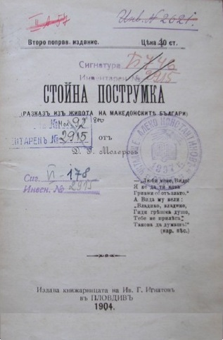 Stoyna Postrumka